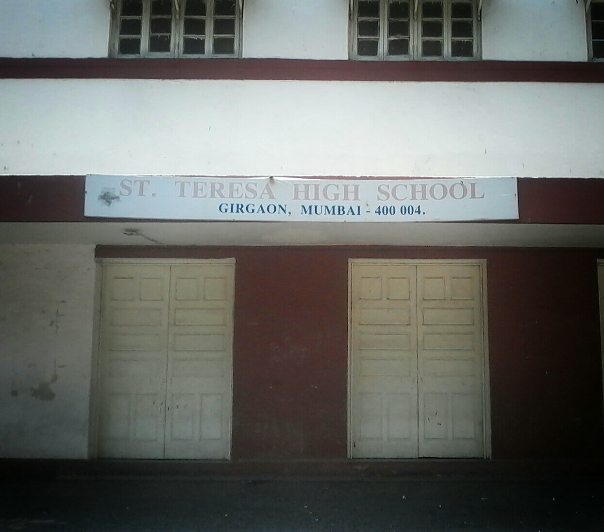 THIS IS THE MAIN BUILDING OF ST. TERESA'S.